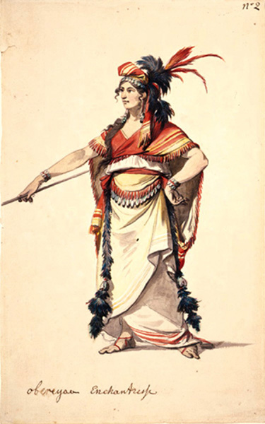 Watercolor of Queen Purea (Oberea).